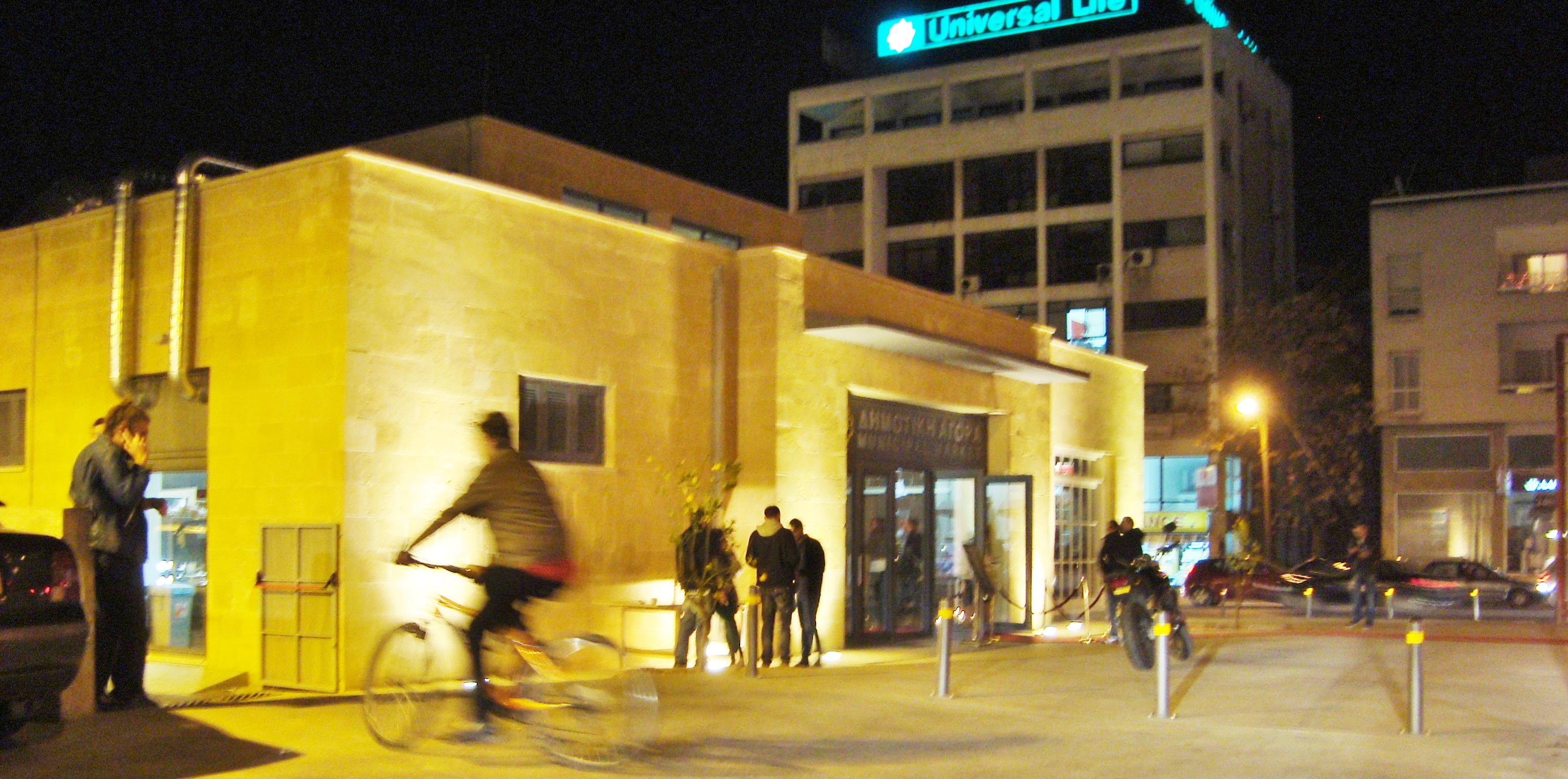 Saint Antonios market